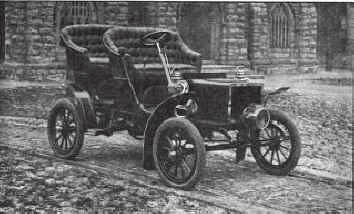 1905 Mahoning 9 HP Side Entrance Tonneau. A single cylinder voiturette made by the Mahoning Motor Car Co. in Youngstown, Ohio, for 1904 and 1905 only.